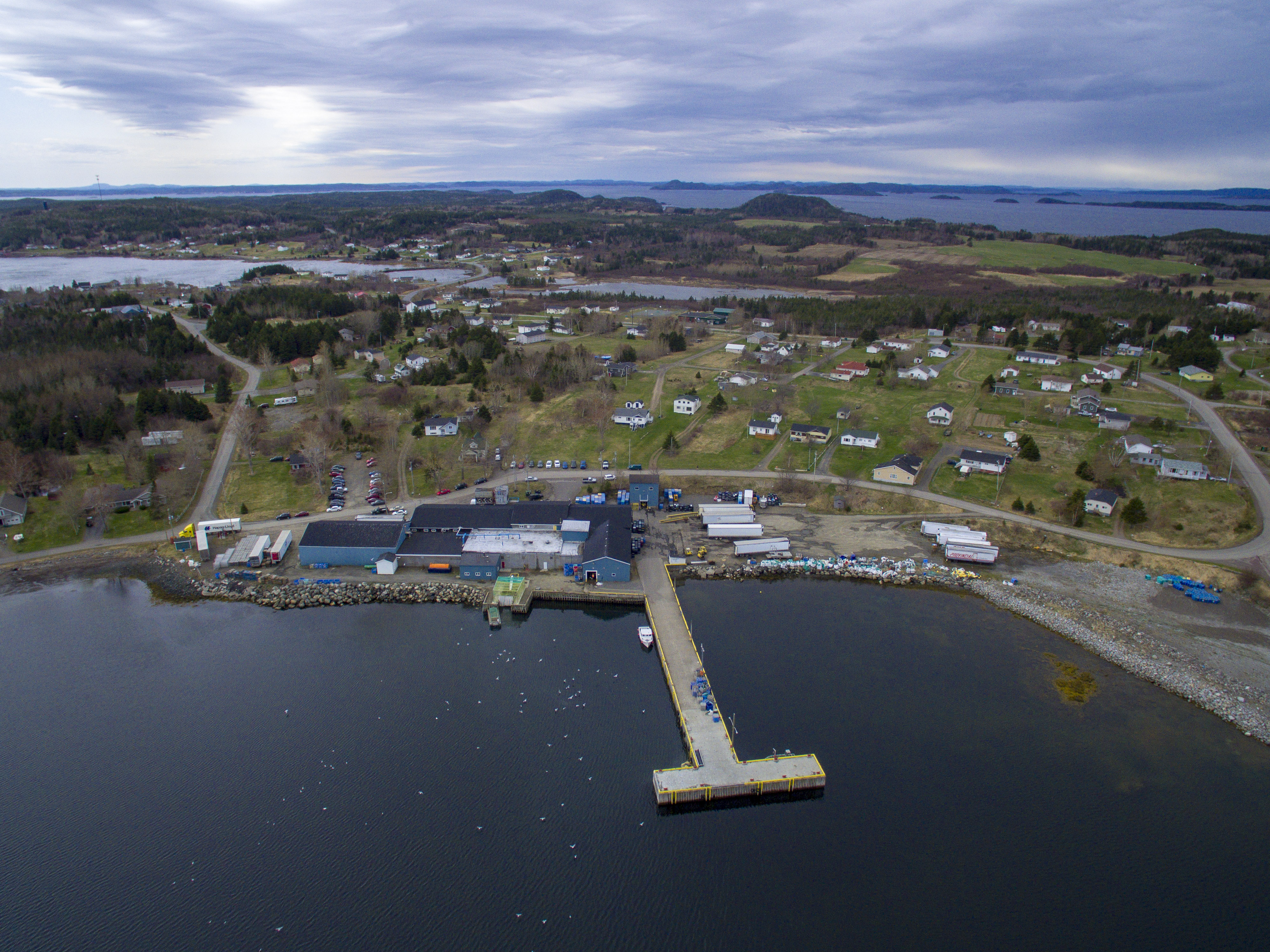 Aerial view of Comfort Cove – Newstead, Newfoundland, with a prominent view of Notre Dame Seafood's fish plant.